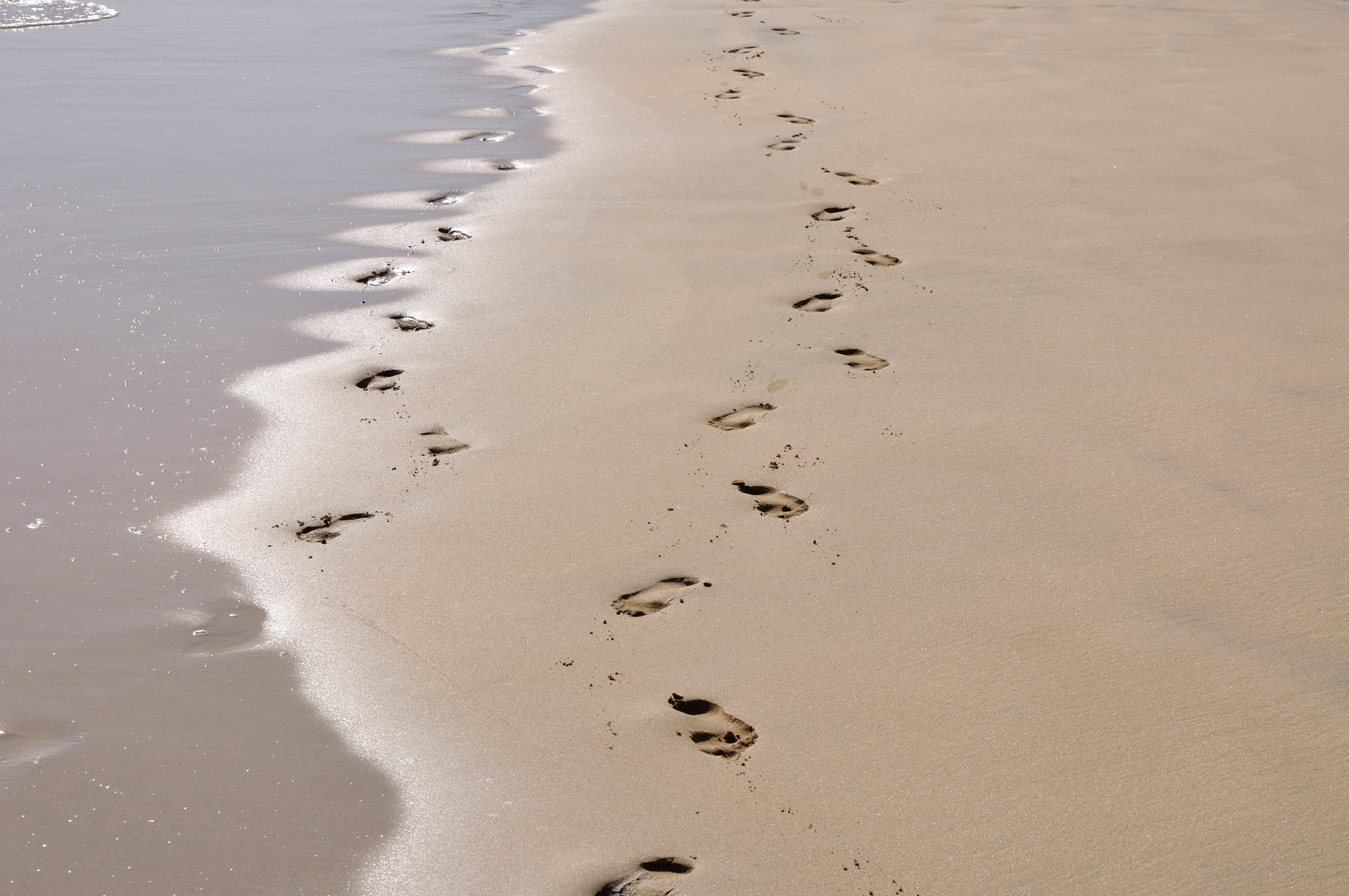 Spain, beaches of Fuerteventura